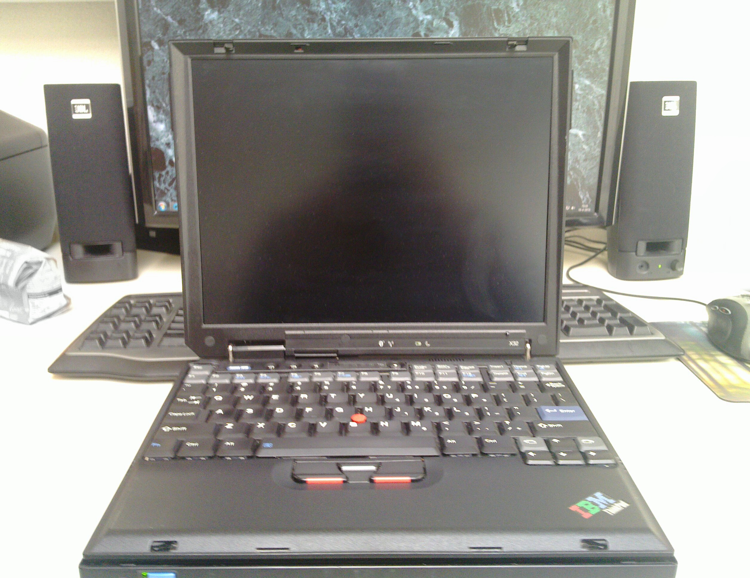 A highly modified ThinkPad X32, equipped with a ATi Radeon 7500 GPU and a X60 Tablet IPS display.